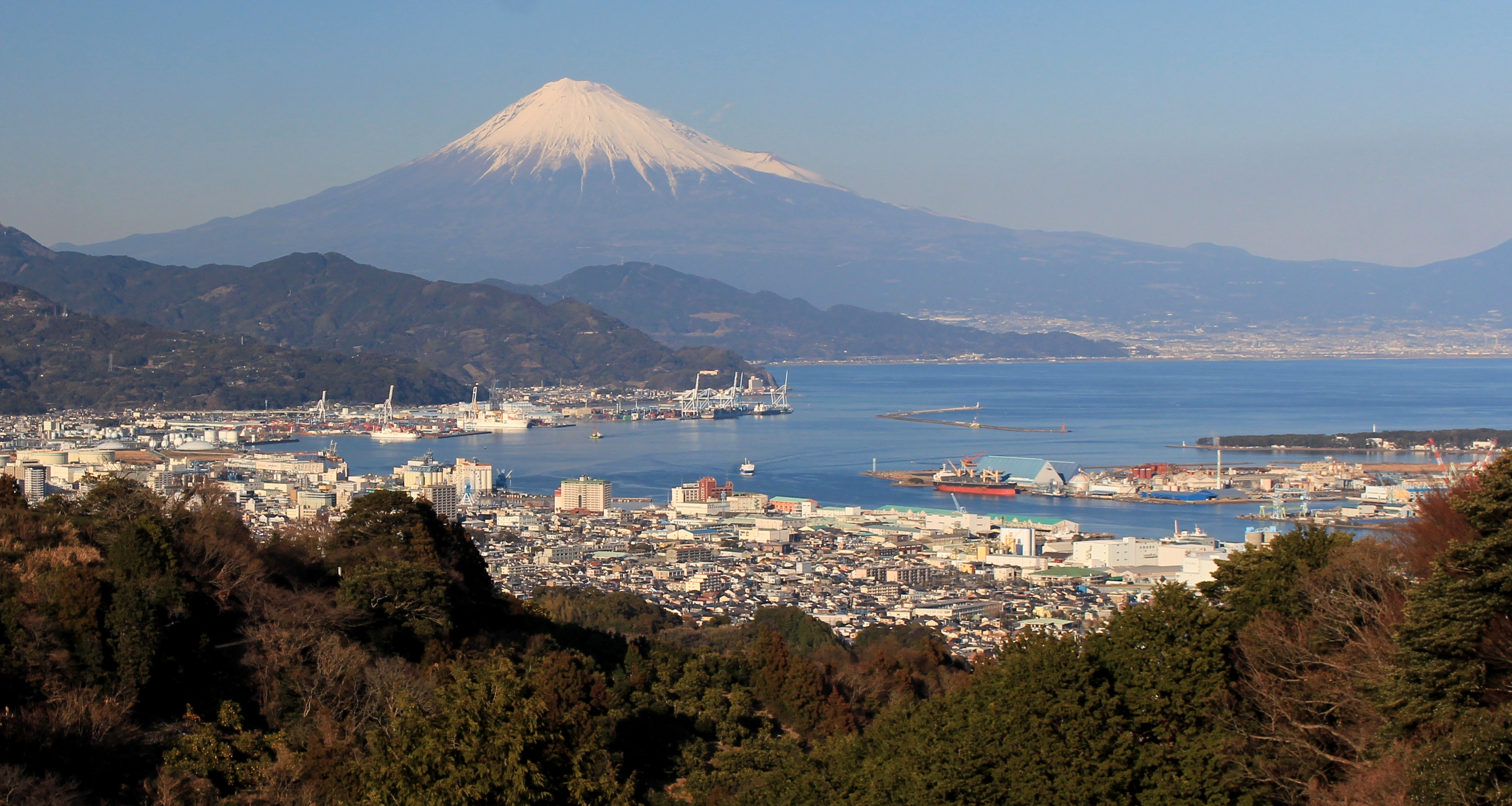 Mount Fuji and Port of Shimizu seen from Nihondaira in Shizuoka prefecture, Japan.